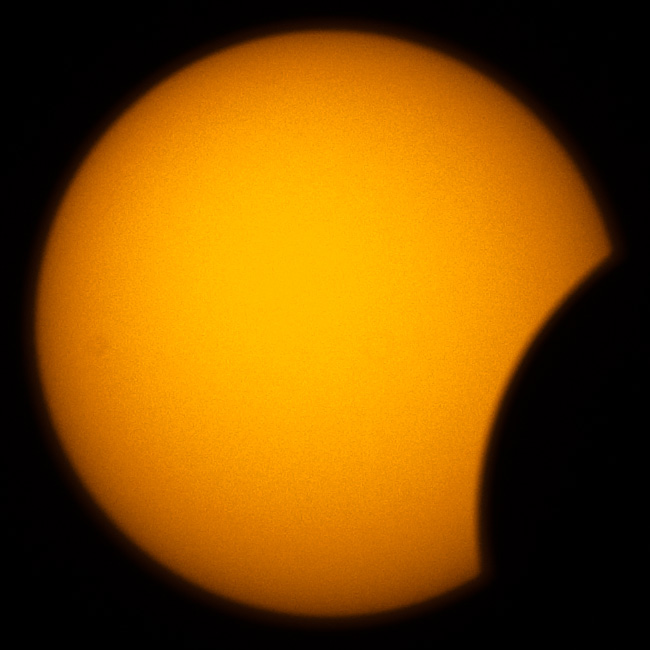 A view through the long lens with the polymer filter shortly after first contact. Taken aboard the C/S Pan Orama about 100 miles SE of Rhodes in the Mediterranean during the total solar eclipse of March 29, 2006. D70s, 500 mm, 1/250 s, f/8, ISO 800, Thousand Oaks Optical Black Polymer filter.